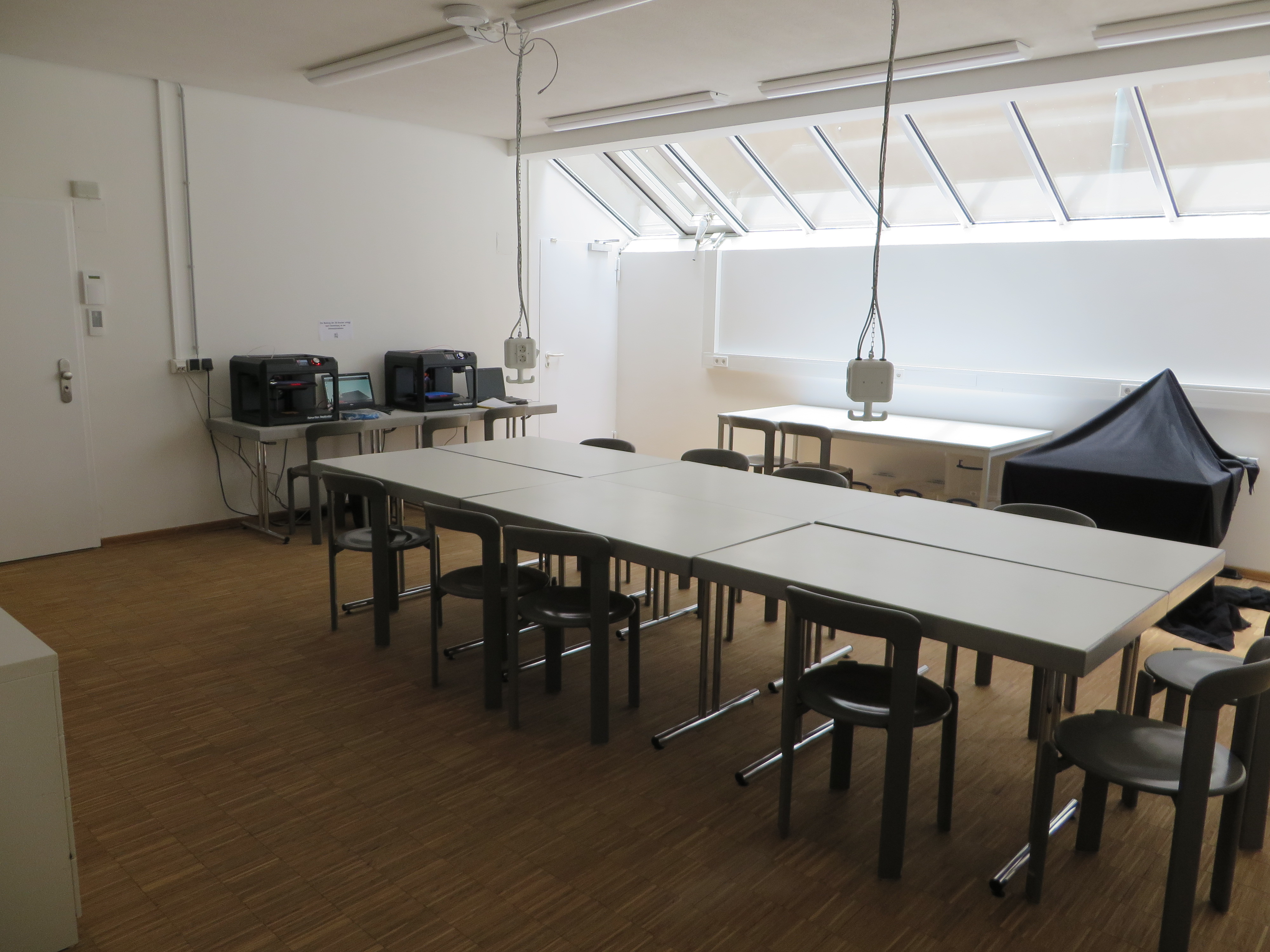 Makerspace at Zentralbibliothek Witten, Germany